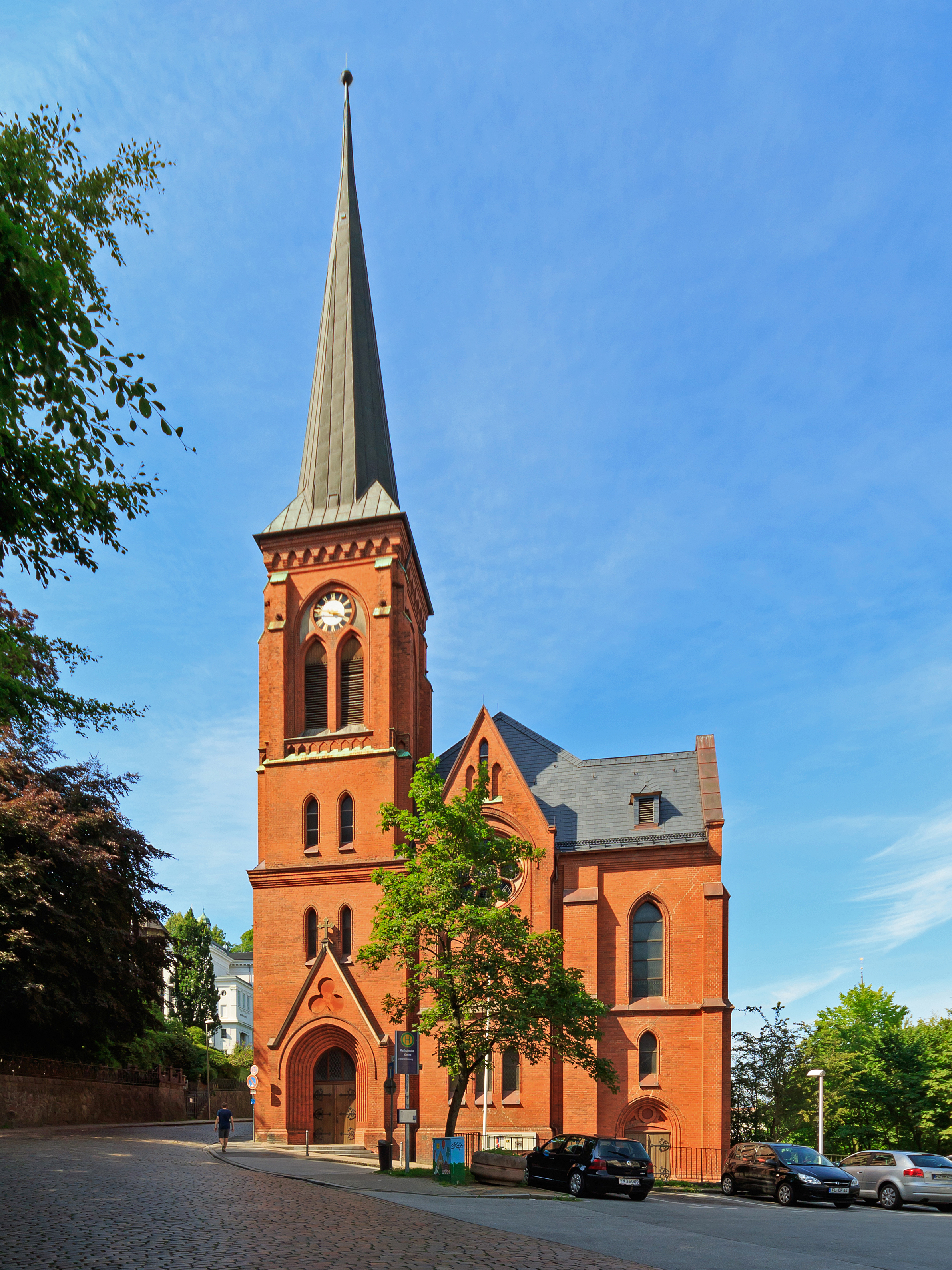 St. Mary church (Roman Catholic) in Flensburg, Germany